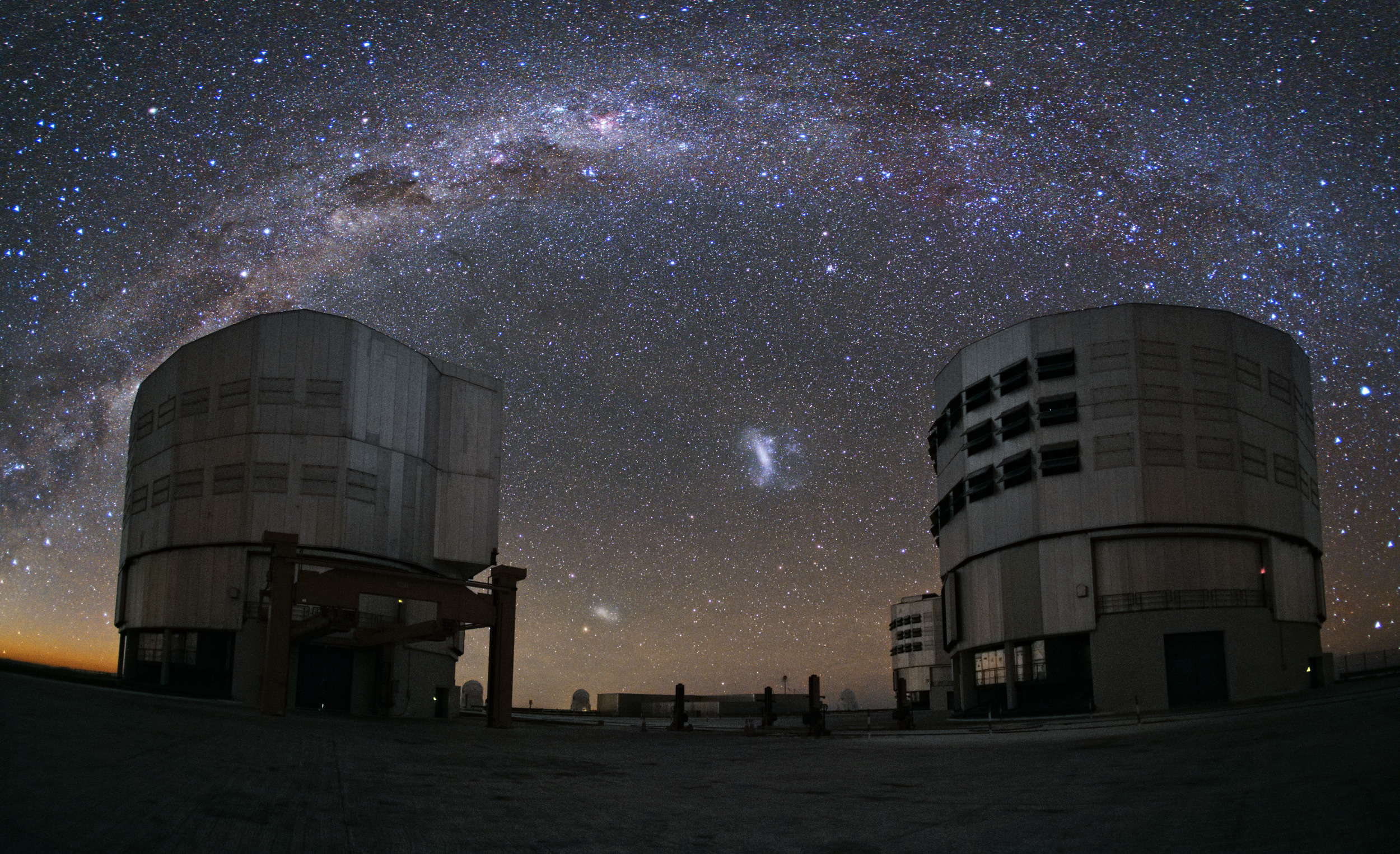 Sitting atop Cerro Paranal high above the Atacama Desert in Chile, two of the Very Large Telescope's Unit Telescopes quietly bask in the starlight, observing the Milky Way as it arches over ESO's Paranal Observatory. Several interesting objects can be seen in this picture. Some of the most prominent are the two Magellanic Clouds — one Small (SMC), one Large (LMC) — which appear brightly in between the two telescopes. By contrast, the dark Coalsack Nebula can be seen as an obscuring smudge across the Milky Way, resembling a giant cosmic thumbprint above the telescope on the left. The Magellanic Clouds are both located within the Local Group of galaxies that includes our galaxy, the Milky Way. The LMC lies at a distance of 163 000 light-years from our galaxy, and the SMC at 200 000 light-years. The Coalsack Nebula, on the other hand, is a mere stone's throw away in comparison. At roughly 600 light-years from the Solar System, it is the most visible dark nebula in our skies. The Coalsack has been recorded by many ancient cultures, and is identified as the head of the Emu in the Sky by several indigenous Australian groups. Aboriginal Australians are most likely the oldest practitioners of astronomy in the world, and they identify their constellations by use of dark nebulae — as opposed to stars, as is the Western tradition. In the Southern hemisphere, these dark clouds are more prominent than in the Northern sky. Other cultures also had dark constellations — for example, the Inca in South America. A particularly important constellation to the Inca astronomers was one known as Urcuchillay (The Llama), representing the significance of the animals in their culture as a source of food, wool, and transport. This image was taken by ESO photo ambassador Yuri Beletsky.